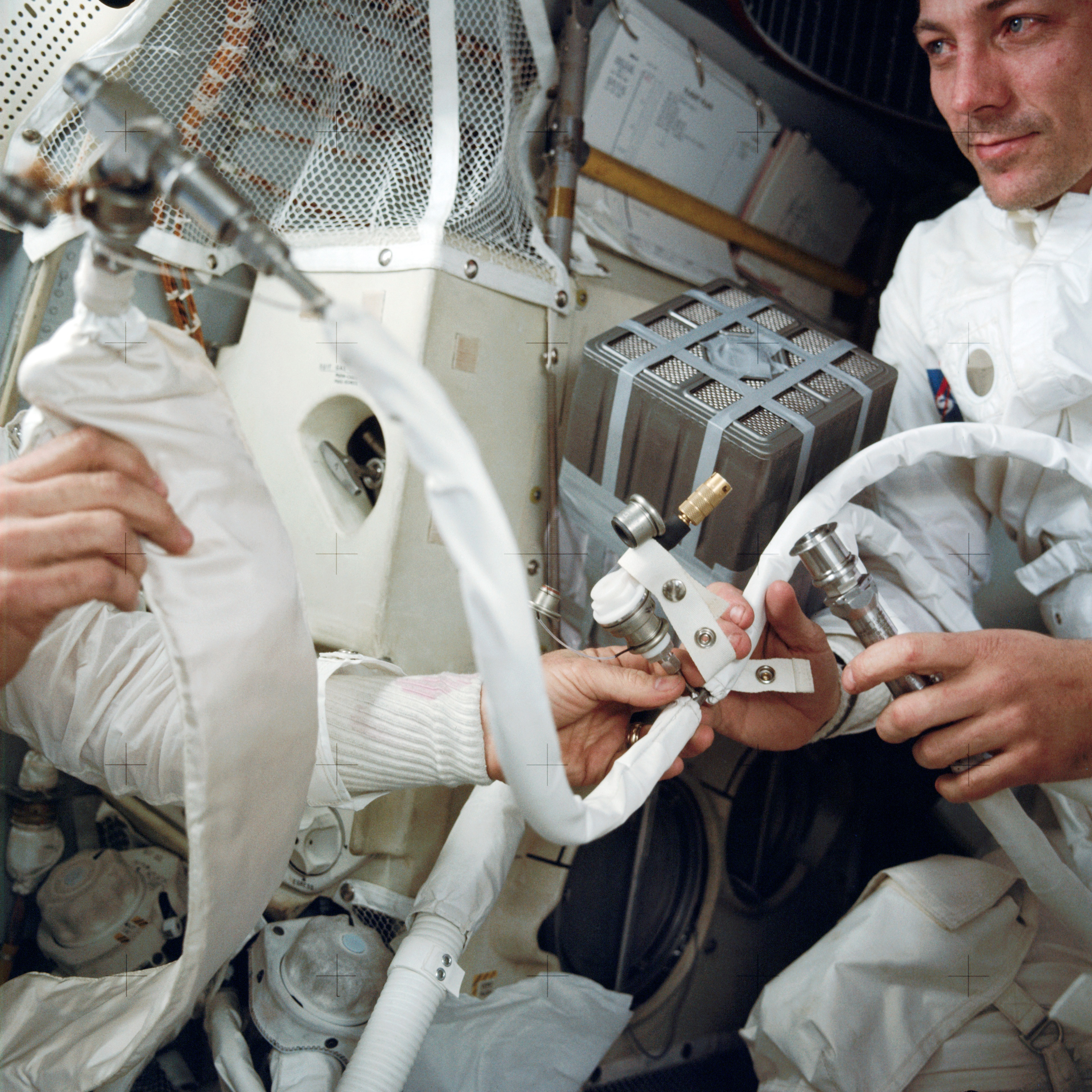 AS13-62-9004 (April 1970) --- An interior view of the Apollo 13 Lunar Module (LM) during the trouble-plagued journey back to Earth. This photograph shows some of the temporary hose connections and apparatus which were necessary when the three Apollo astronauts moved from the Command Module (CM) to use the LM as a "lifeboat". Astronaut John L. Swigert Jr., command module pilot, is on the right. An unseen Lovell on the left holds in his right hand the feed water bag from the Portable Life Support System (PLSS). It is connected to a hose (center) from the Lunar Topographic (Hycon) Camera. In the background is the "mail box," a jury-rigged arrangement which the crew men built to use the CM lithium hydroxide canisters to scrub CO2 from the spacecraft's atmosphere. Since there was a limited amount of lithium hydroxide in the LM, this arrangement was rigged up to utilize the canisters from the CM. The "mail box" was designed and tested on the ground at the Manned Spacecraft Center (MSC) before it was suggested to the Apollo 13 astronauts. An explosion of an oxygen tank in the Service Module (SM) caused the cancellation of the scheduled moon landing, and made the return home a hazardous journey for astronauts Swigert, James A. Lovell Jr., commander, and Fred W. Haise Jr., lunar module pilot.